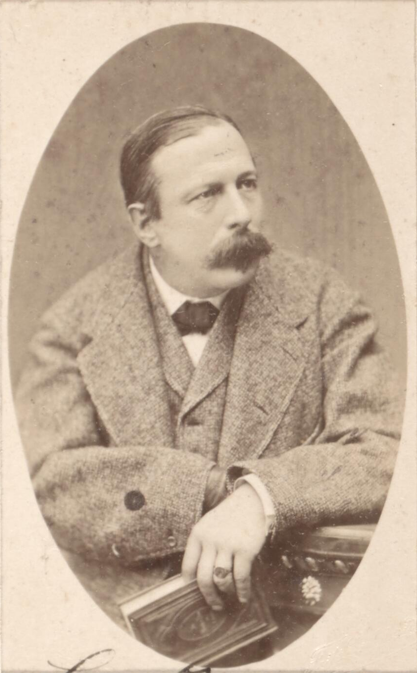 Plate 09 Photograph album of German and Austrian scientists. Franz Eilh. Schulze, Graz; Oscar Schmidt, Strassburg (Strasbourg); Dr. Otto Zacharias, Dessau; Bartholomaeus von Carneri, Wildhaus/Steiermark (Styria); Dr. Fr. Ludwig, Greiz; Stephan Milow, Graz; Conrad Deubler, Goisern/Steiermark (Styria); Dr. Wilhelm Wurm, Bad Teinach; Emerich Du Mont, Graz.